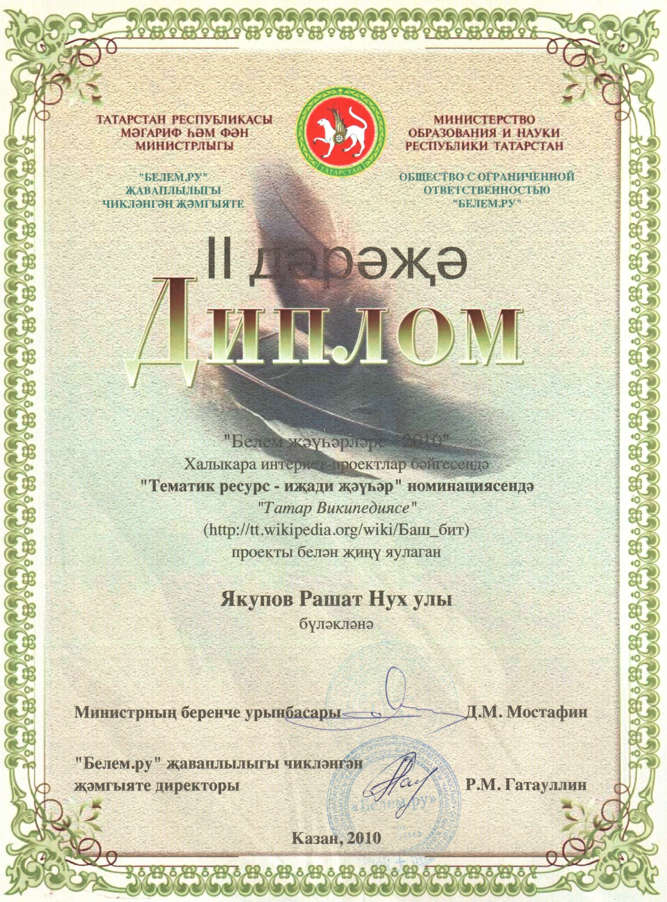 The diploma for the second place in a nomination «Тематик ресурс — иҗади җәүһәр» in the International competition of Internet projects «Белем җәүһәрләре».